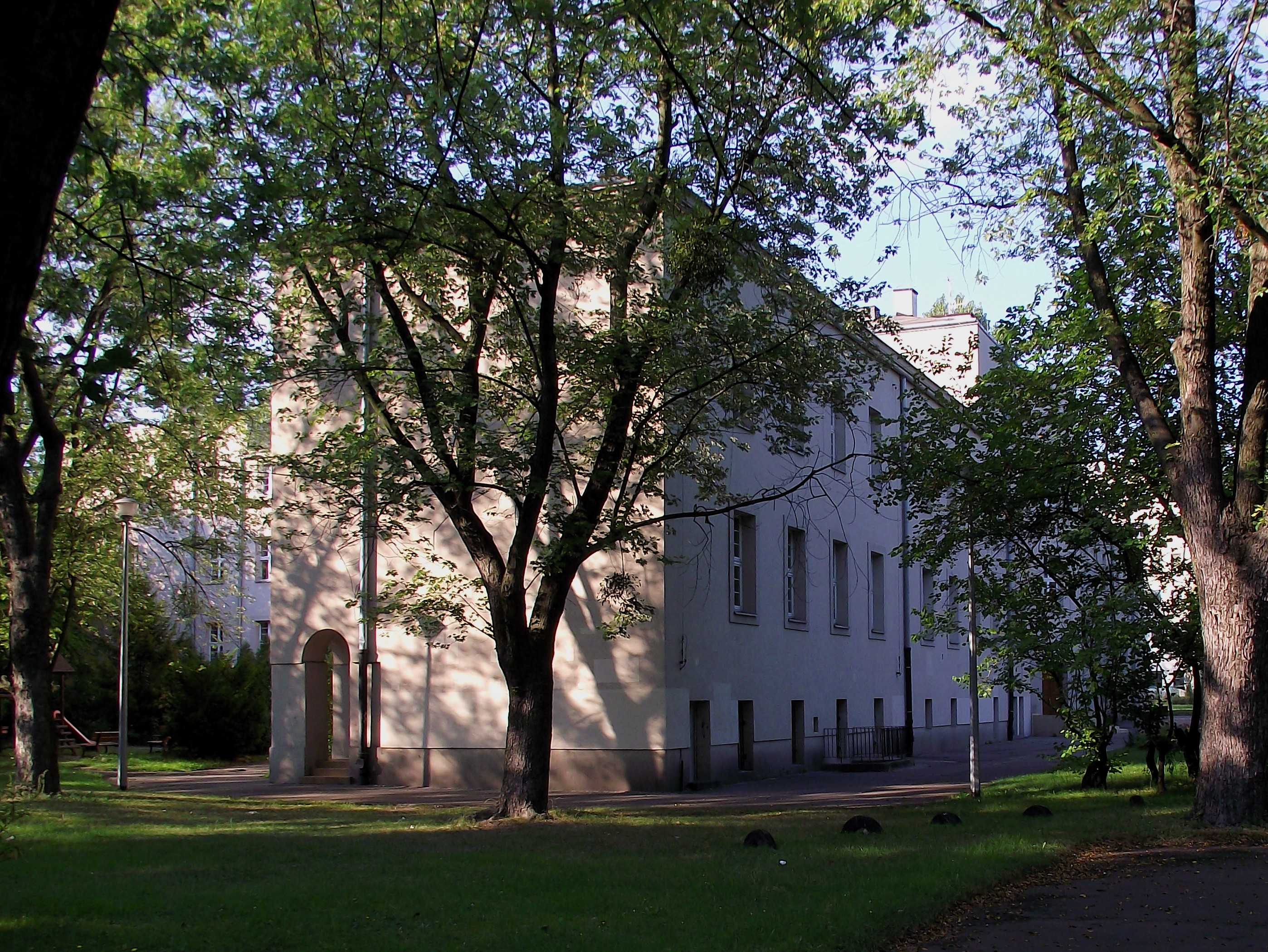 Building by 34 Zjednoczenia Avenue in Warsaw, Bielanów district. View from Schroegera Street. Built in 1927, one year later was established a new domicile of the "Nasz Dom" (pol. "Our Home") orphanage founded in 1919 by Maryna Falska and Janusz Korczak in Pruszków.